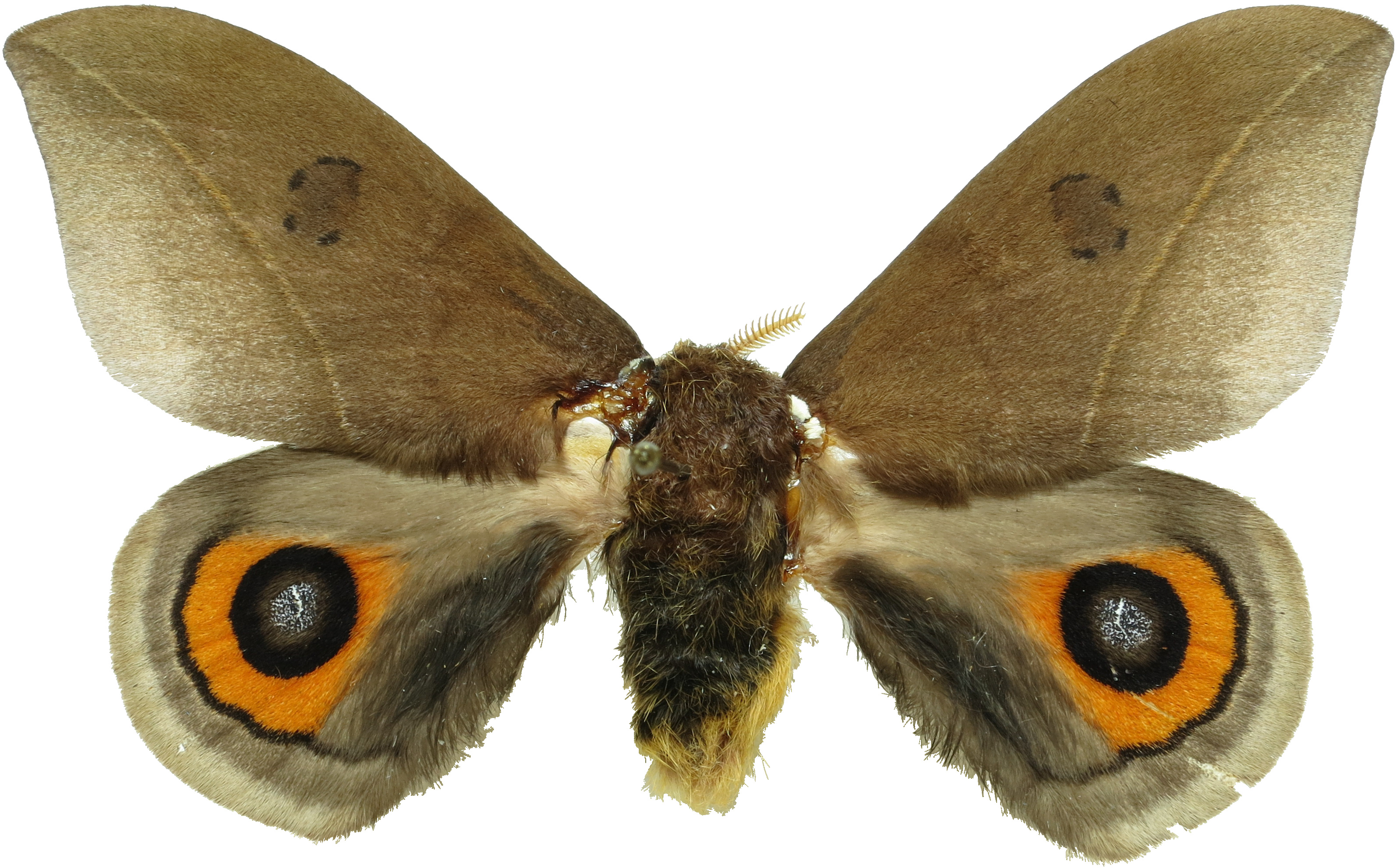 Automeris naranja mâle - Guyane Française